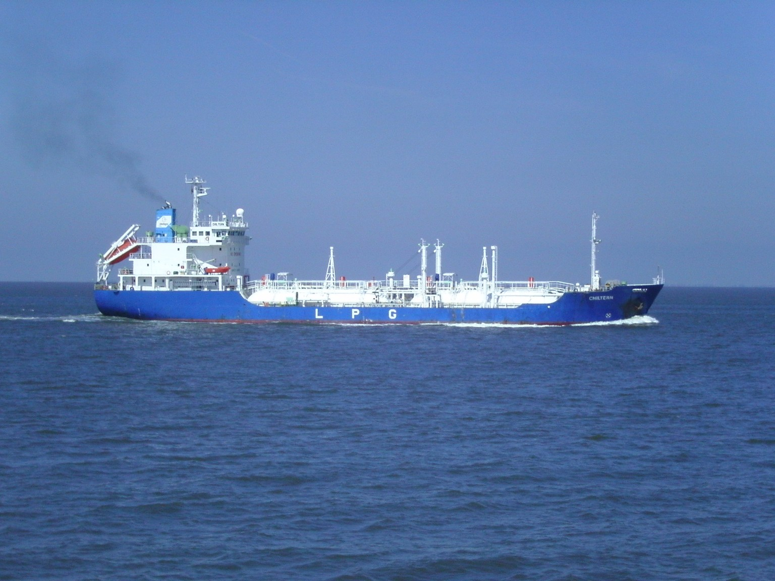 The LPG (liquefied petroleum gas) tanker Chiltern inbound on the River Elbe near Cuxhaven